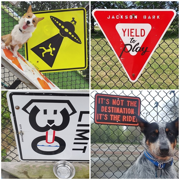 Photo-op signs inspired by contemporary artists Clet Abraham and Izaac Zevalking